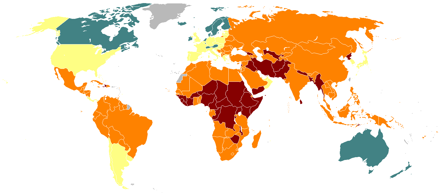 World Map, showing Failed States according to the "Failed States Index 2010"